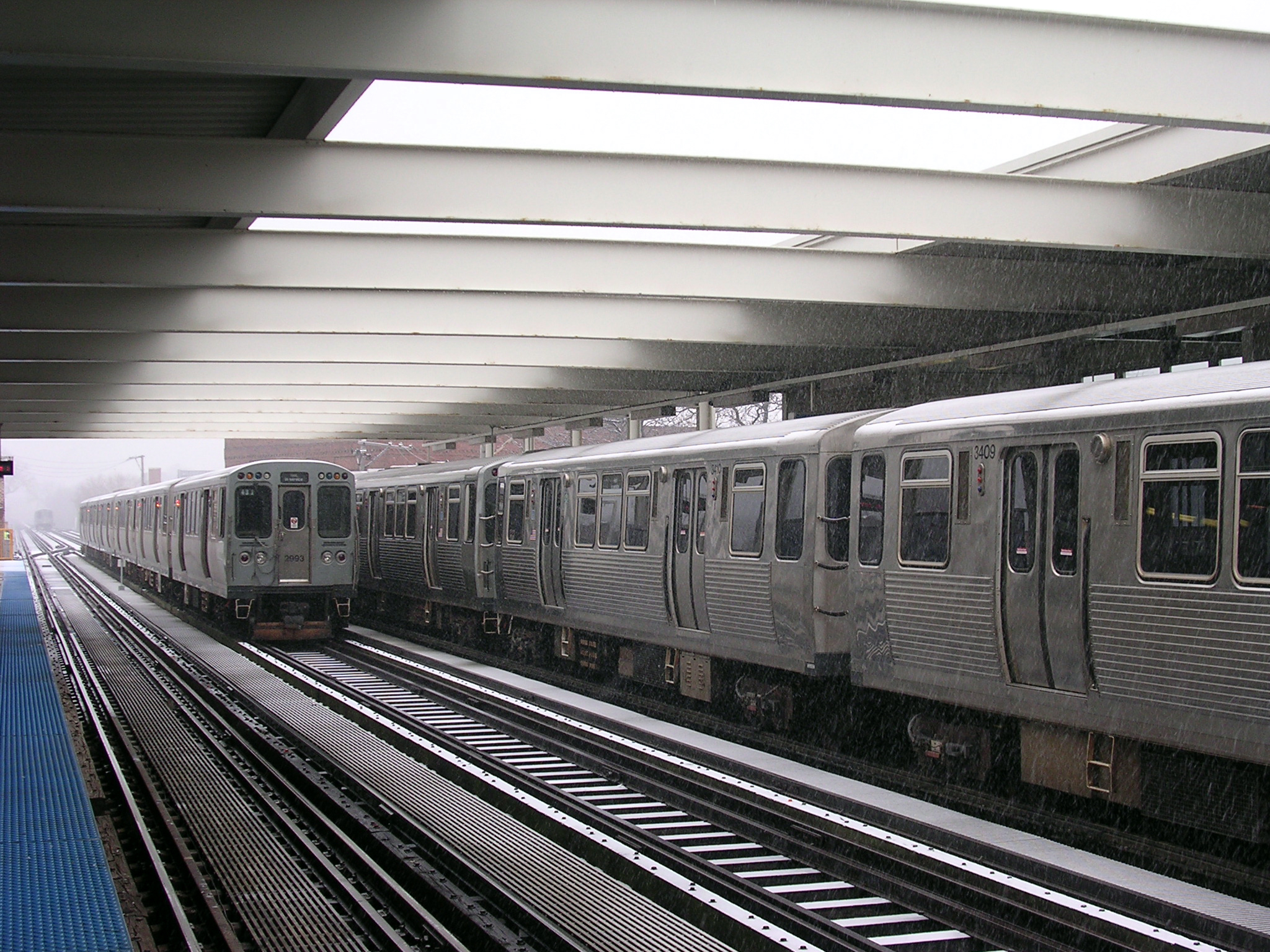 The CTA Western brown line stationWestern Brown Line Stop